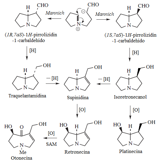 Necines biosynthesis 2